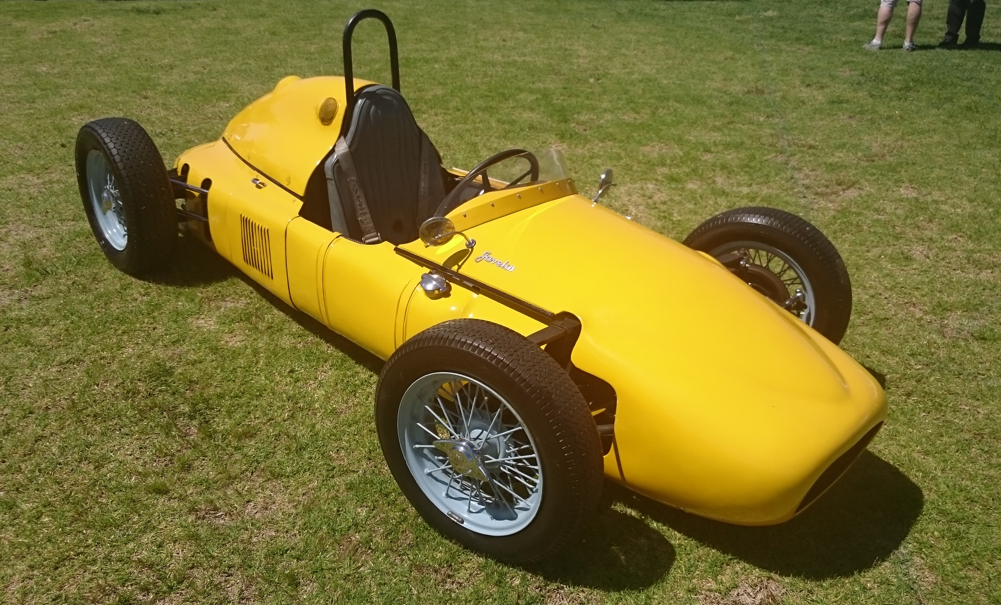 Wylie Javelin. Built in 1951 by Arthur and Ken Wylie, it was powered by a Jowett Javelin engine. The car placed ninth in the 1953 Australian Grand Prix.